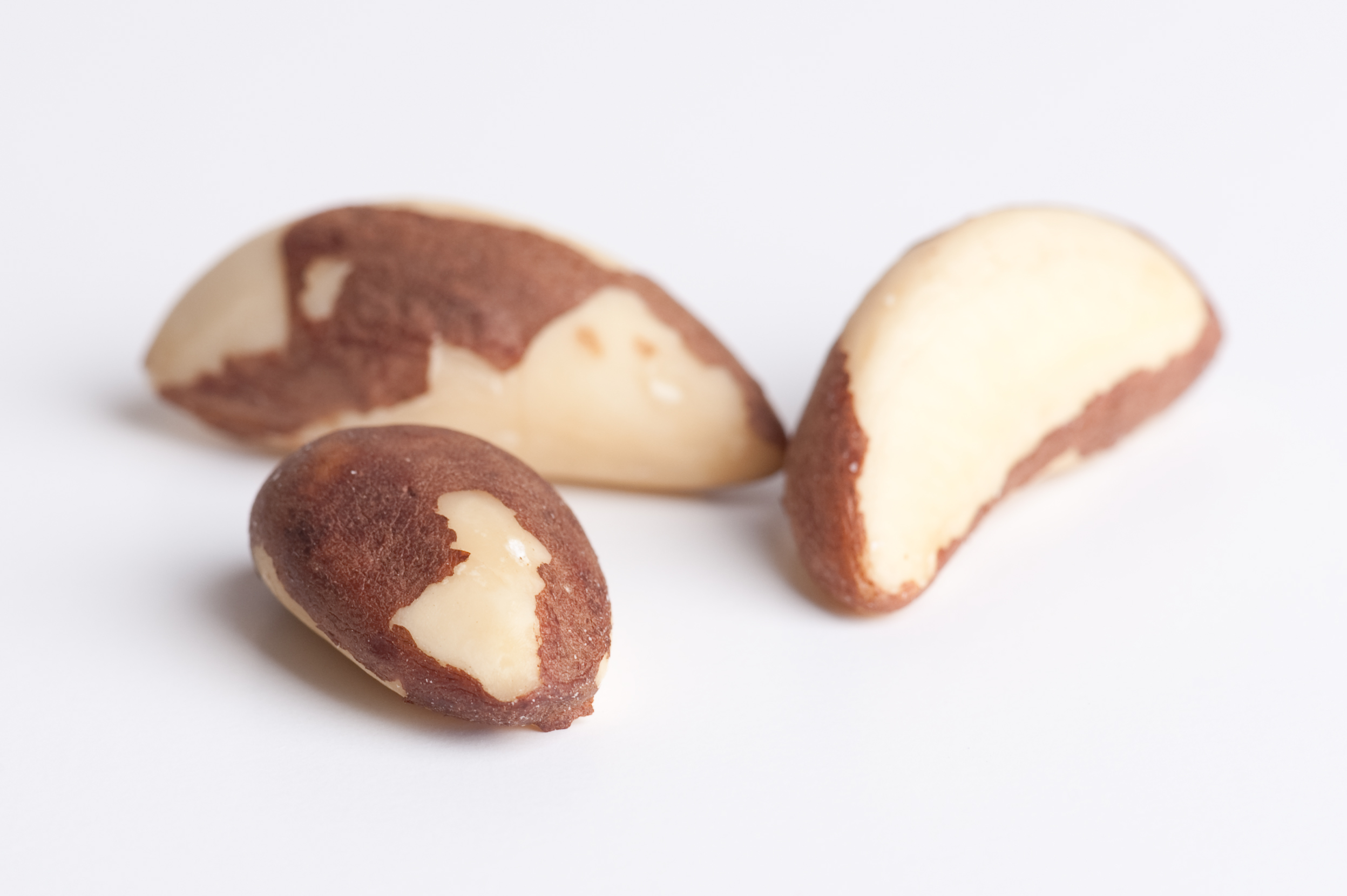 Bertholletia excelsa seeds closeup